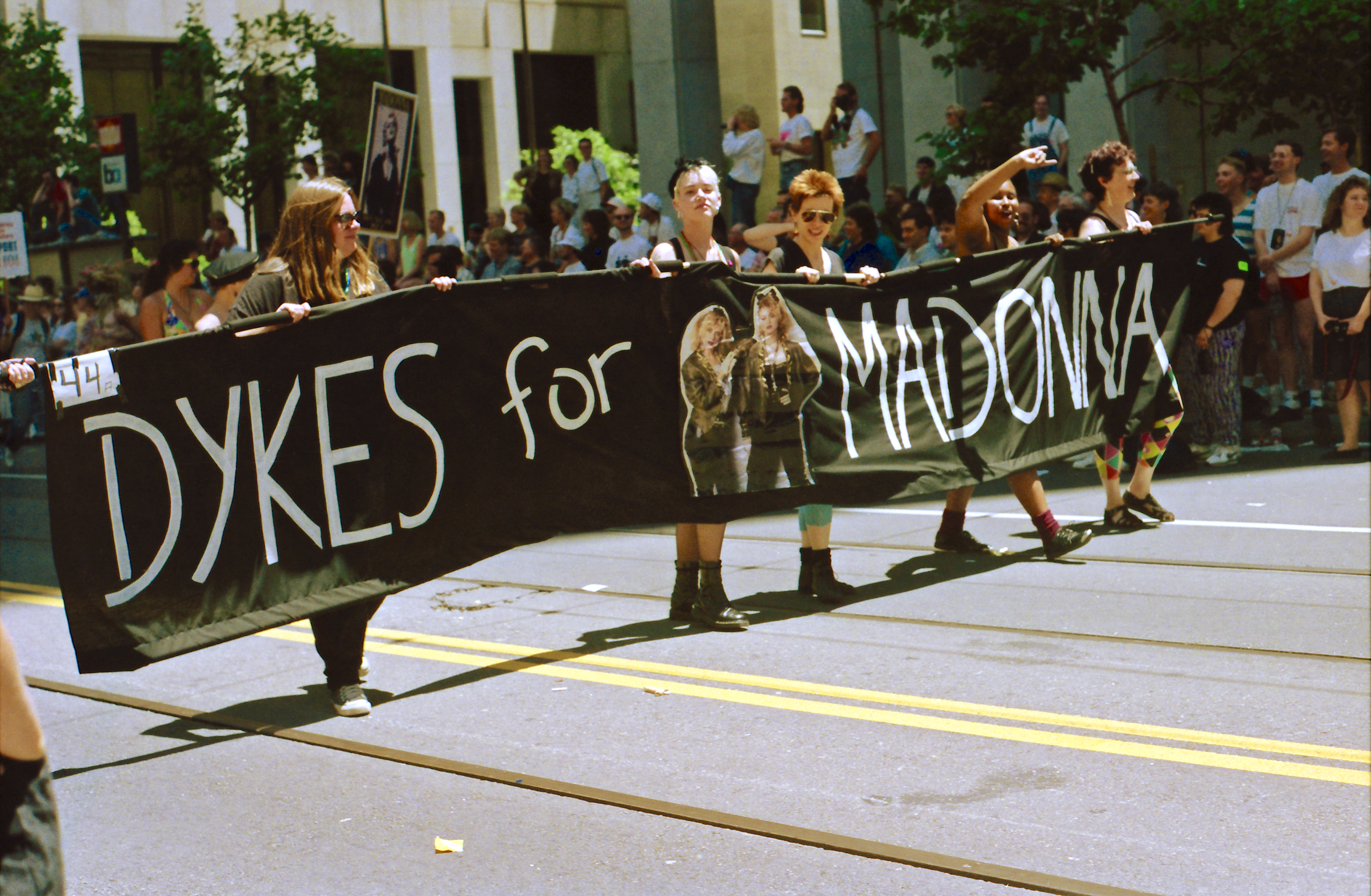 And they have a message for you! Girls, listen up! DON'T GO FOR SECOND-BEST, BABY, PUT YOUR LOVER TO THE TEST… EXPRESS YOURSELF! hey heyyy RESPECT YOURSELF!